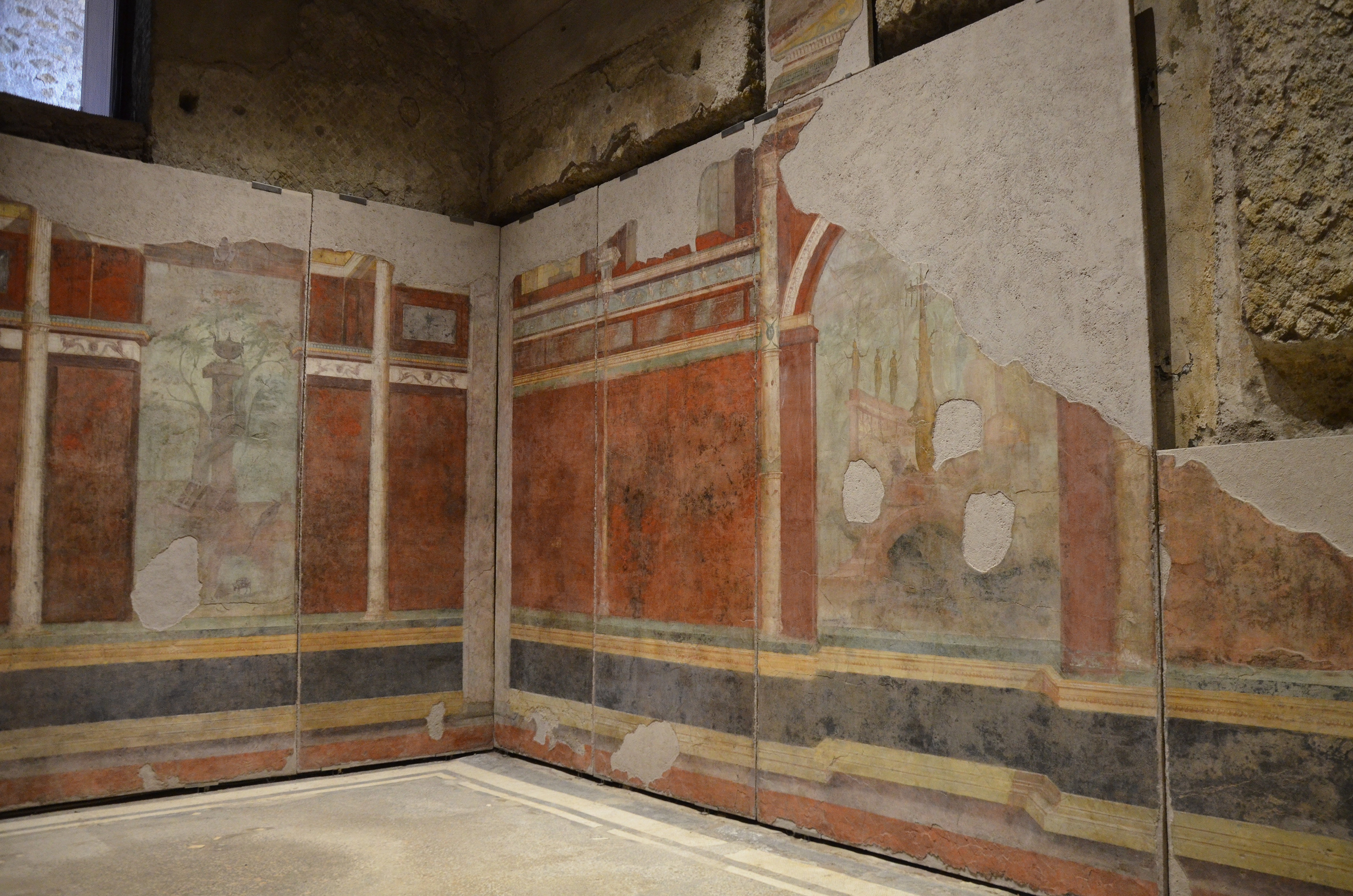 House of Livia, Palatine Hill, Rome